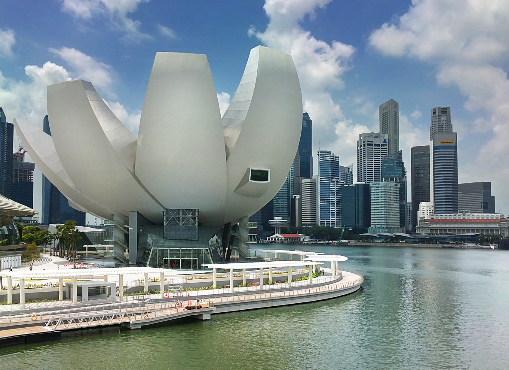 Marina Bay Sands' ArtScience Museum, Singapore. An appealing design no matter which direction you're positioned. This one was taken again with my Sony Vivaz hp from Bayfront Drive which has a slight elevated advantage.